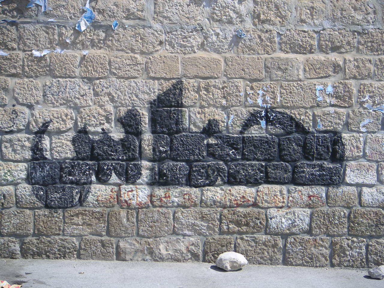 ‘حماس’ graffiti (Hamas)